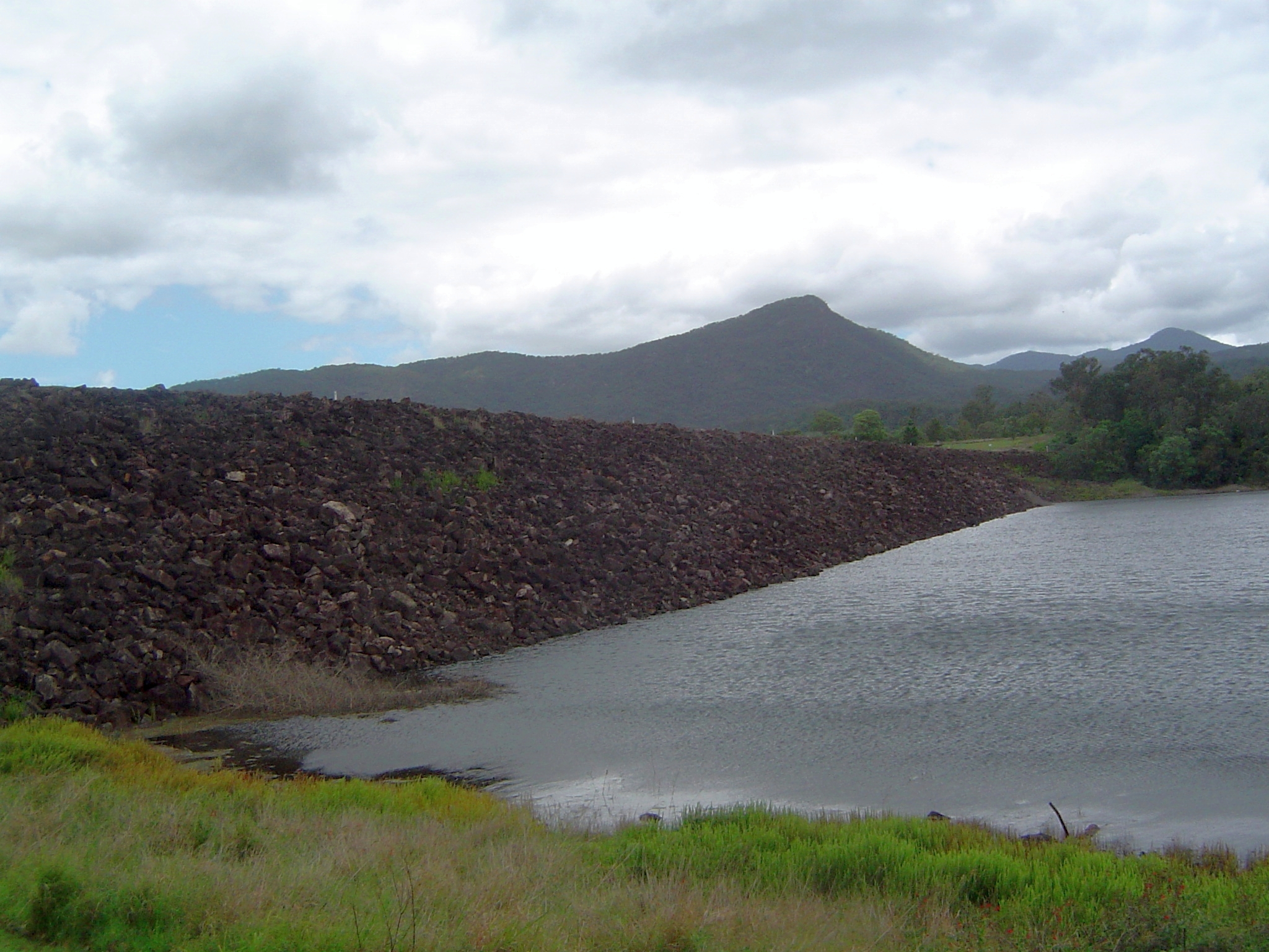 Photo of Maroon Dam wall in South East Queensland, Australia. Dam level was at 100% capacity.